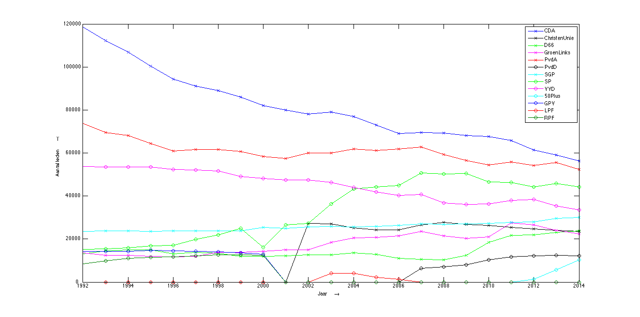 Trend number of members of Dutch political parties between 1992 and 2006